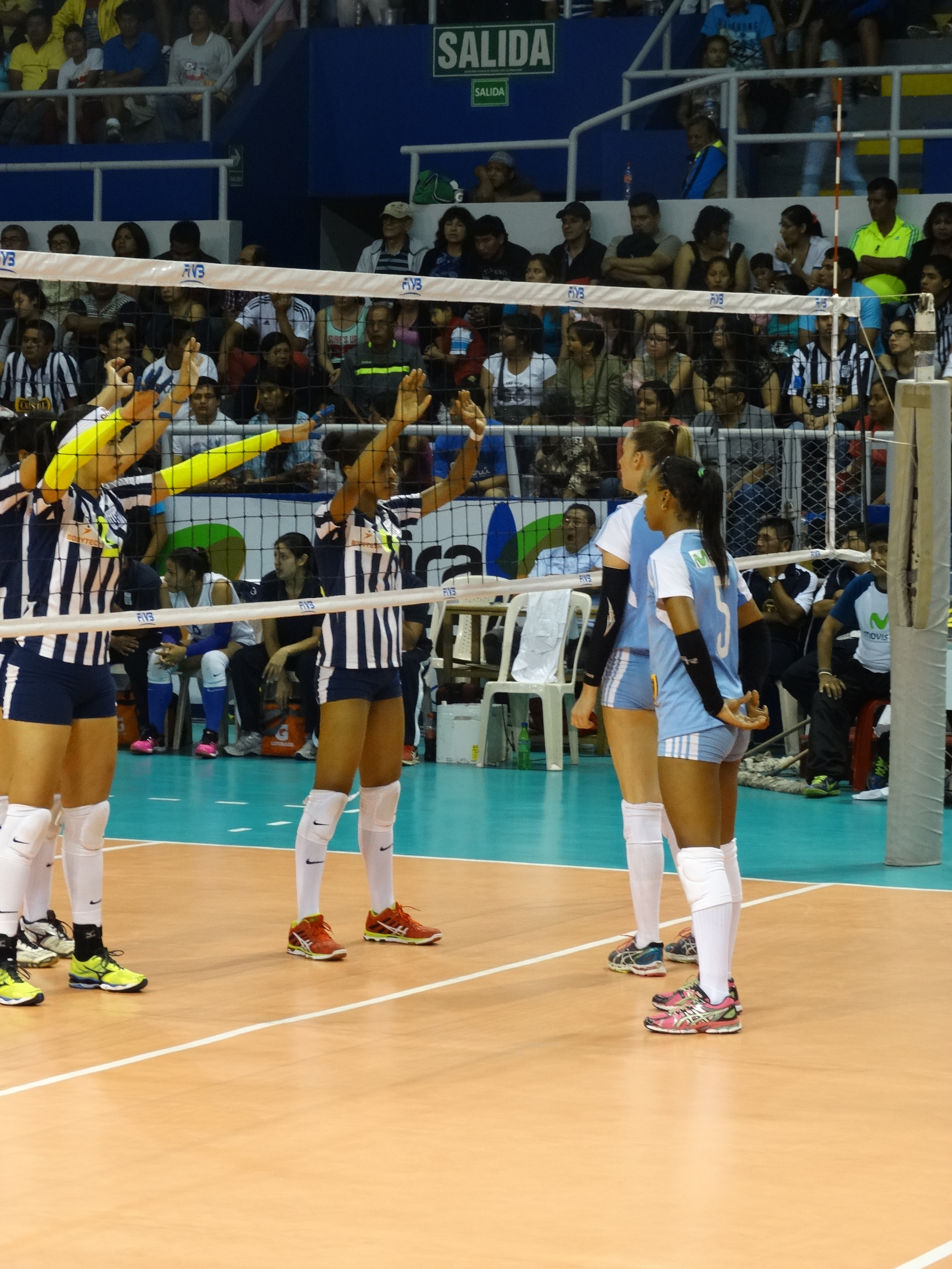 Volleyball match between Sporting Cristal and Alianza Lima